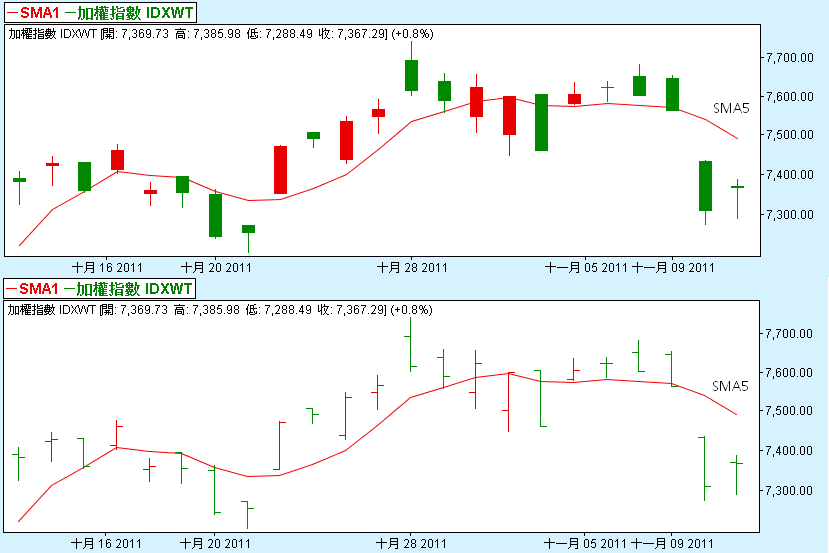 K chart vs. OHLC chart